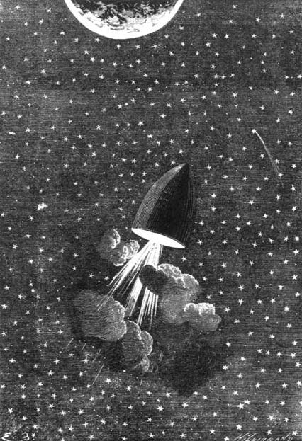 An illustration from Jules Verne's novel "Around the Moon" drawn by Émile-Antoine Bayard and Alphonse de Neuville.